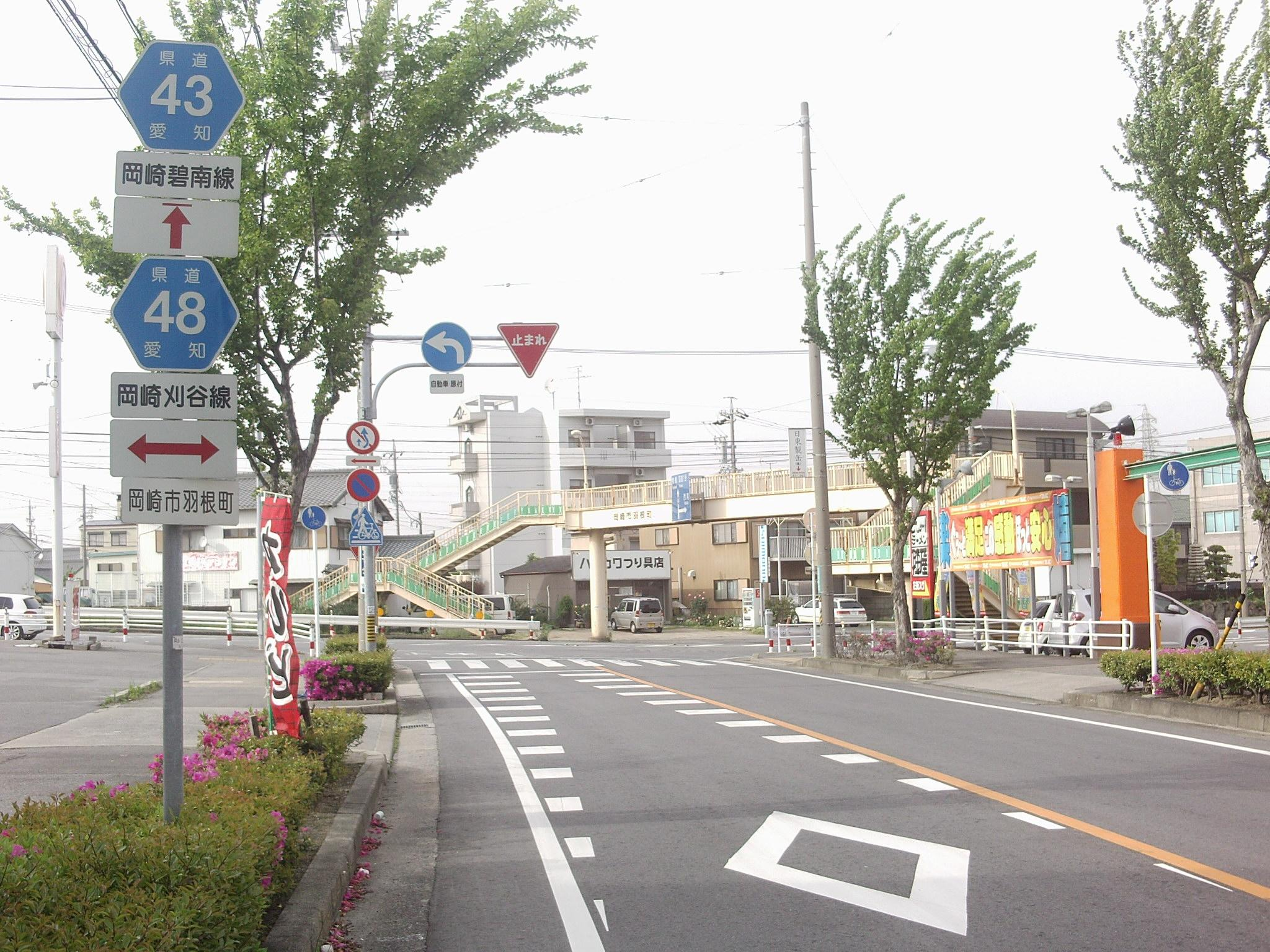 The Aichi Prefectural Road Route 43 in Hanecho, Okazaki City